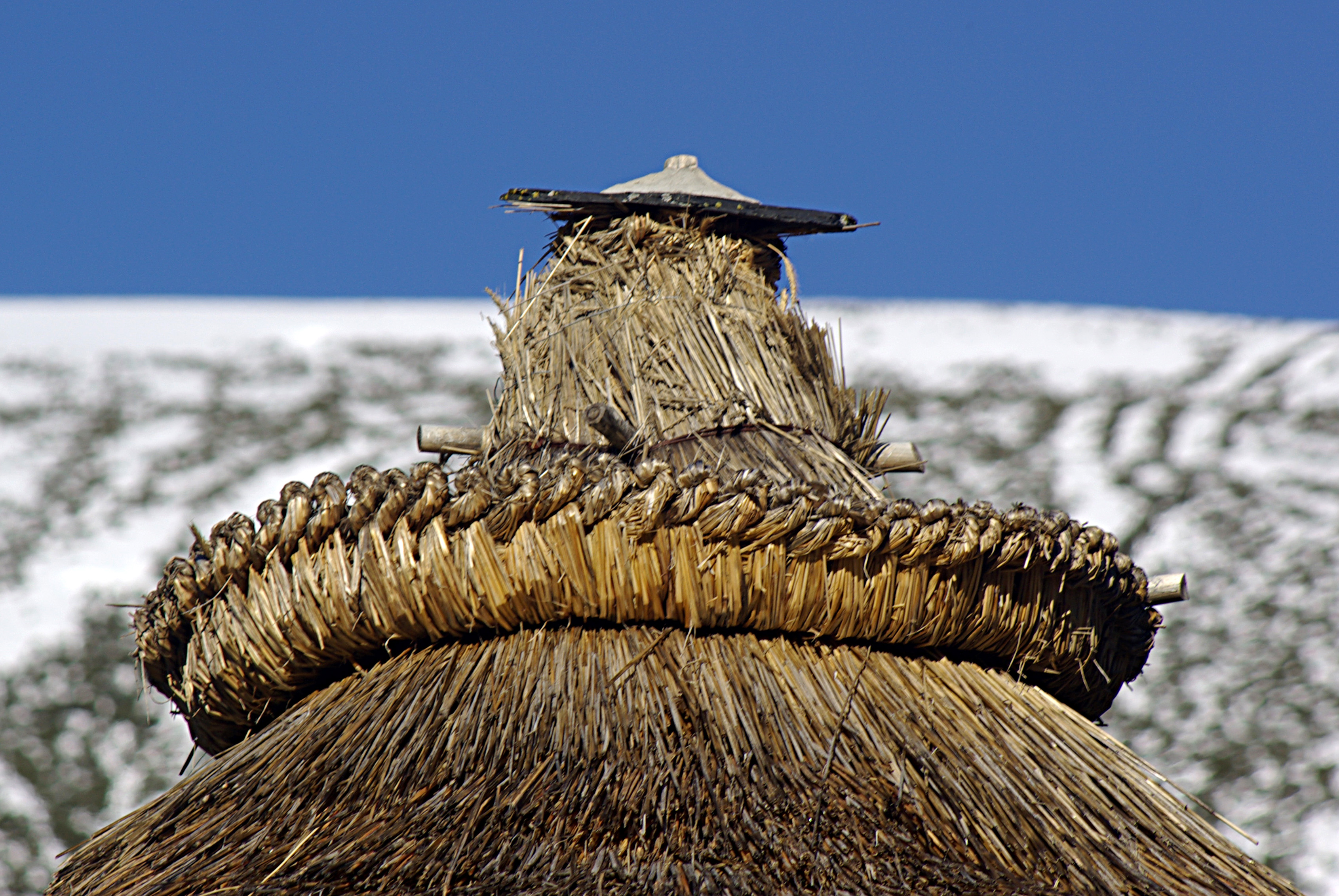 Detail of hórreo in Balouta with a thatched straw, Candín (León, Spain). It's built on four slate walls. In one of them it's opened a door which gives access to the place where some belongings are kept. The granary sits on four legs of wood called pegollos. On the legs there is a slab that avoids the entrance to rodents. Between the granary floor and roof of the store there is a small vent space called camaranchón. The teito is of rye made with the technique of palette, with a unusual top, with well knotted straw braid.